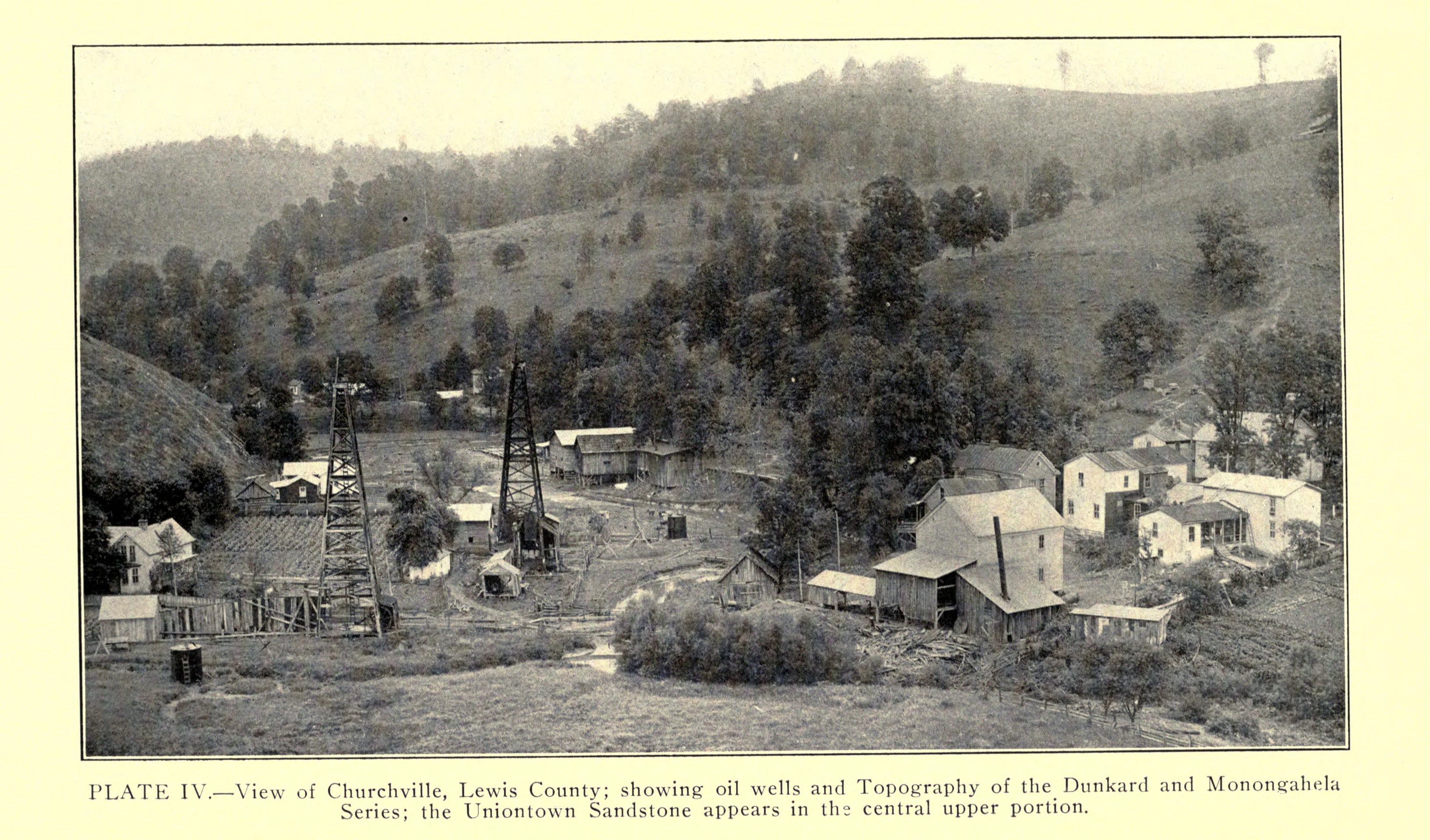 County reports and maps] Lewis and Gilmer Counties, by David B. Reger, assistant geologist, I. C. White, state geologist.